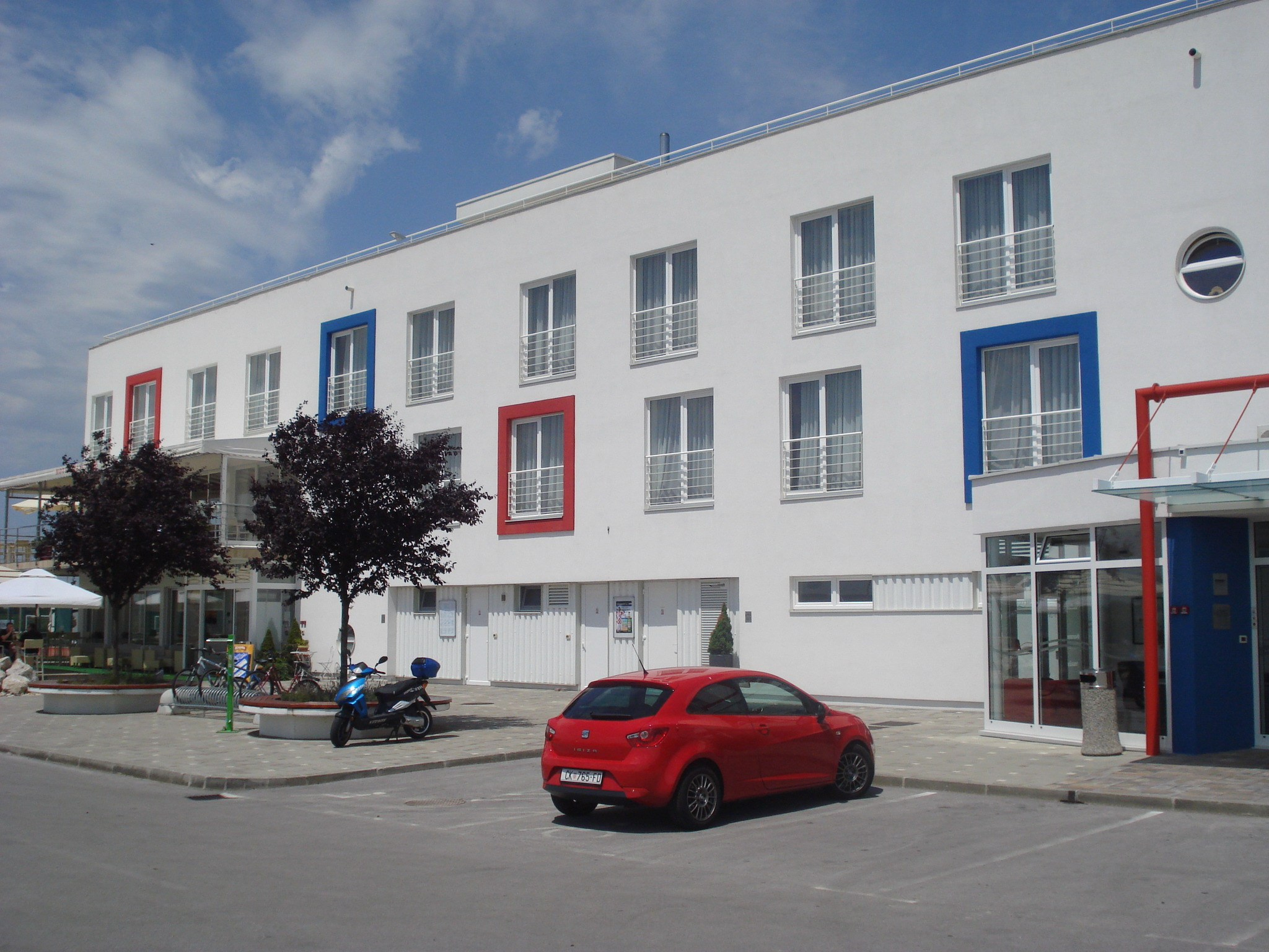 "Panorama" Hotel in Prelog, Međimurje County, Croatia - south viewHrvatski: Hotel "Panorama" u Prelogu, Međimurska županija, Hrvatska - južna strana